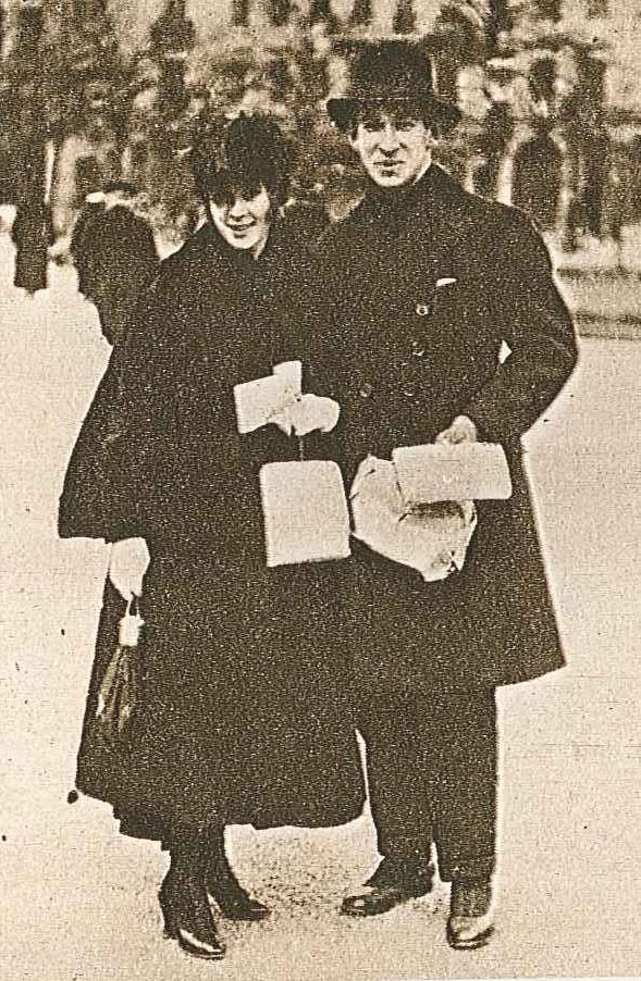 Einar Nerman (1888-1983), Swedish artist and illustrator, with his wife Kajsa shopping for Christmas 1916.